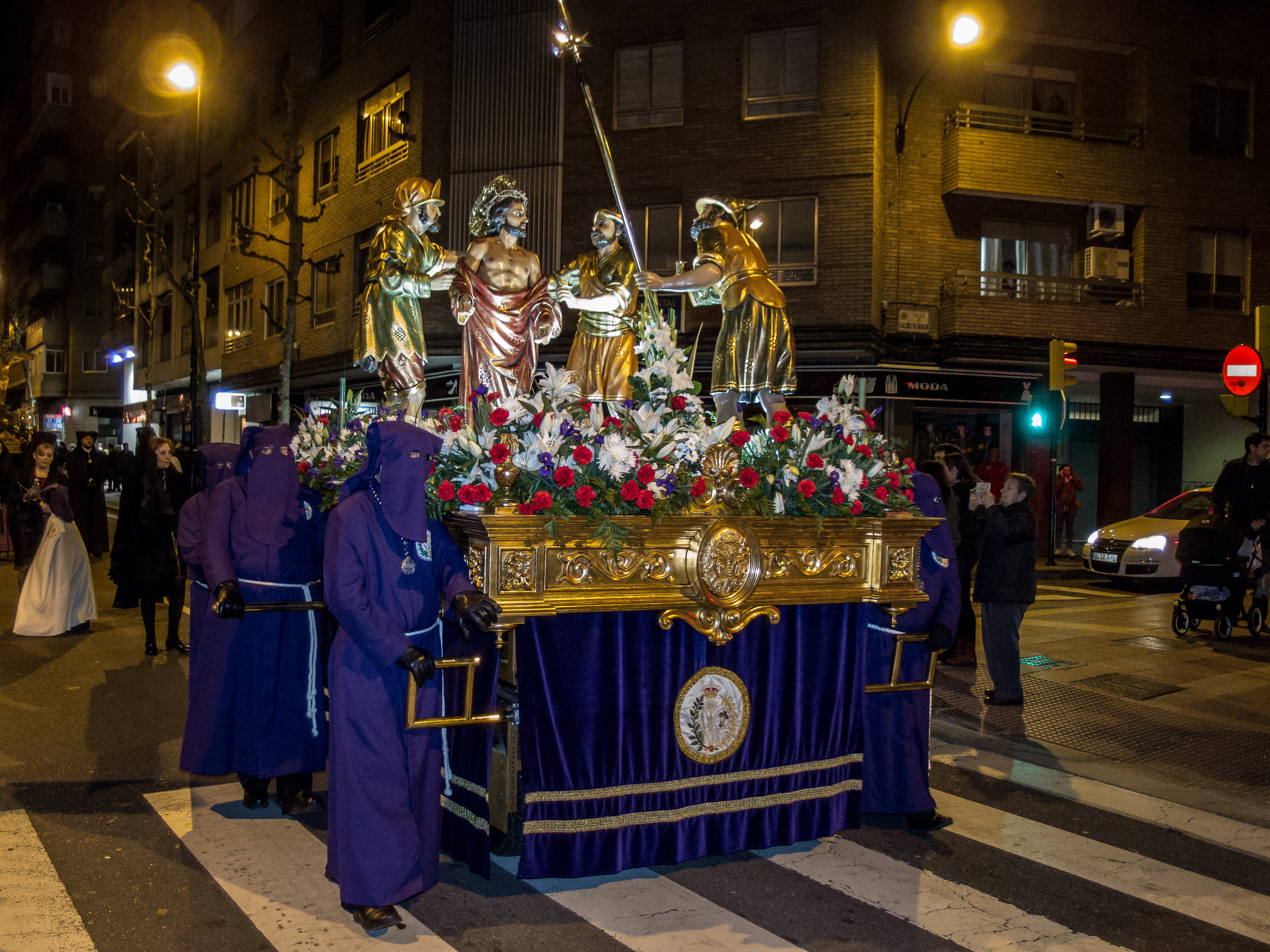 OLYMPUS DIGITAL CAMERA This is a photography of a Folklore festival in Spain (Wikidata id Q9075892).